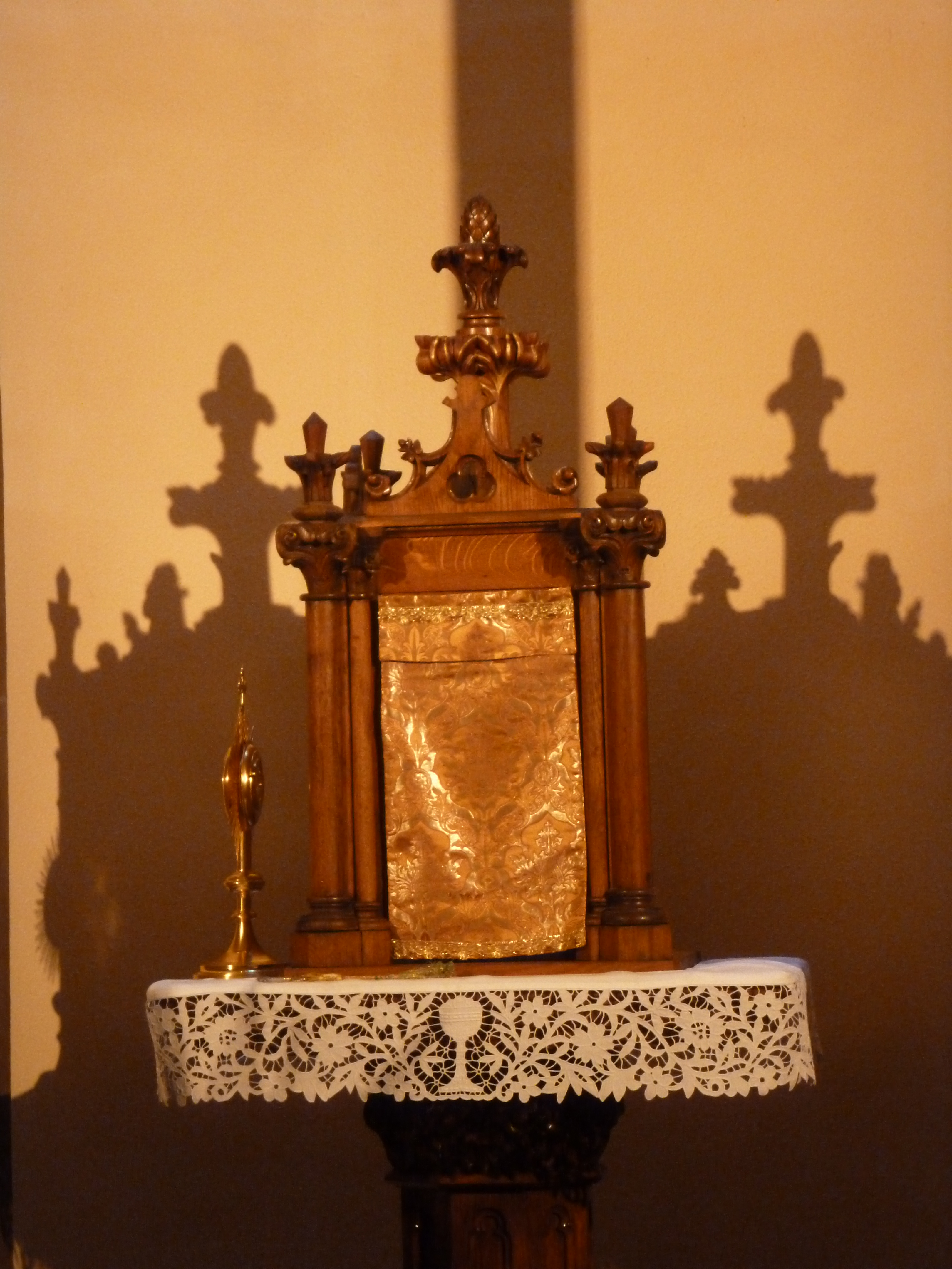 Gotic-revival tabernacle in Saint-Jean-de-Bassel (Moselle, Lorraine, France)